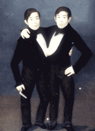 Chang & Eng Bunker (1835 or 1836) - public domain "The image featured above is an original watercolor on ivory depicting the twins, and it was painted by an unidentified French or Dutch artist in Paris between December, 1835 and March, 1836. It is currently in the holdings of the North Carolina Collection Gallery." 01:14, 13 November 2004 CatherineMunro 333x461 (36,998 bytes) (Chang & Eng Bunker (1835) - public domain)